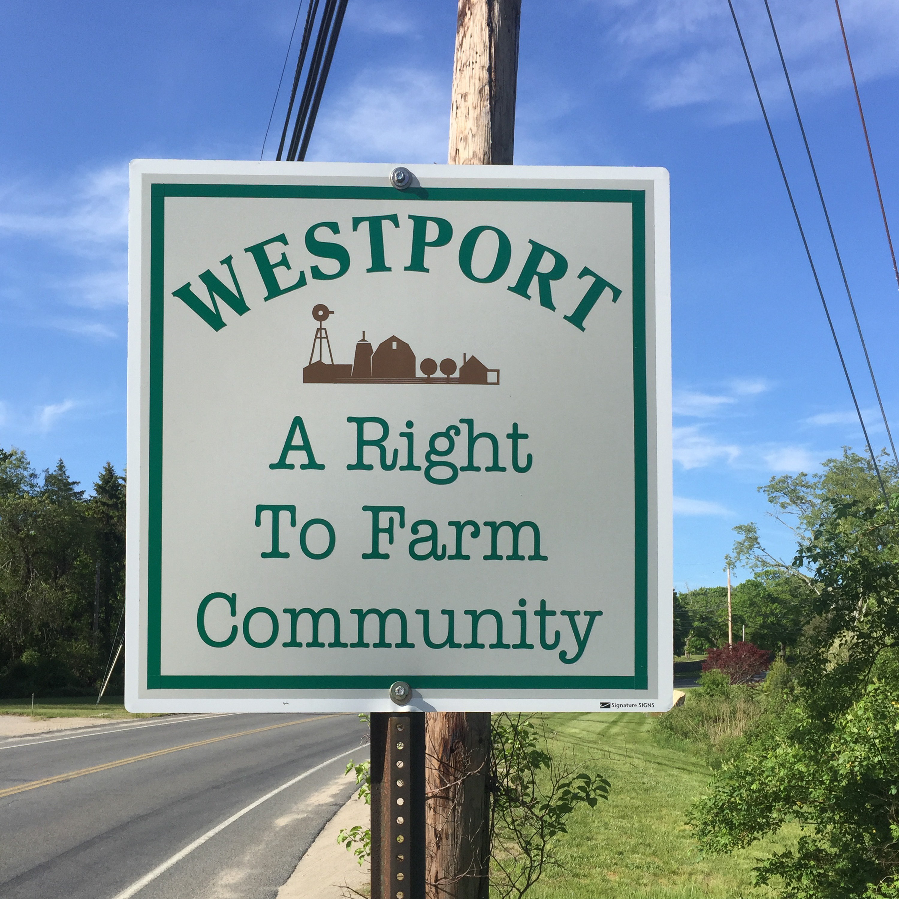 Westport Massachusetts: A right to Farm Community sign